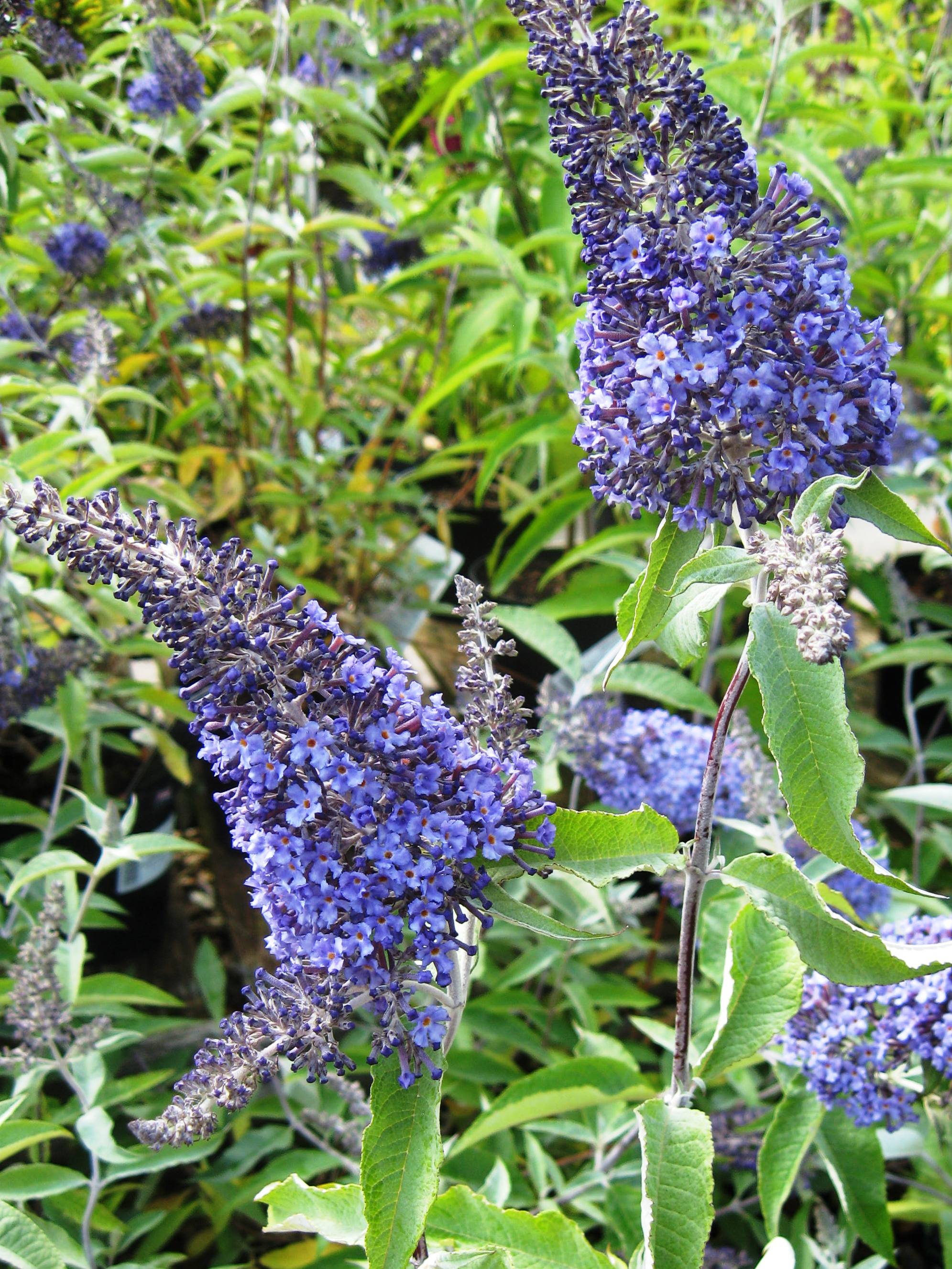 Photo of Buddleja davidii 'Summer House Blue' taken at Longstock Park nursery, UK, national collection holders.